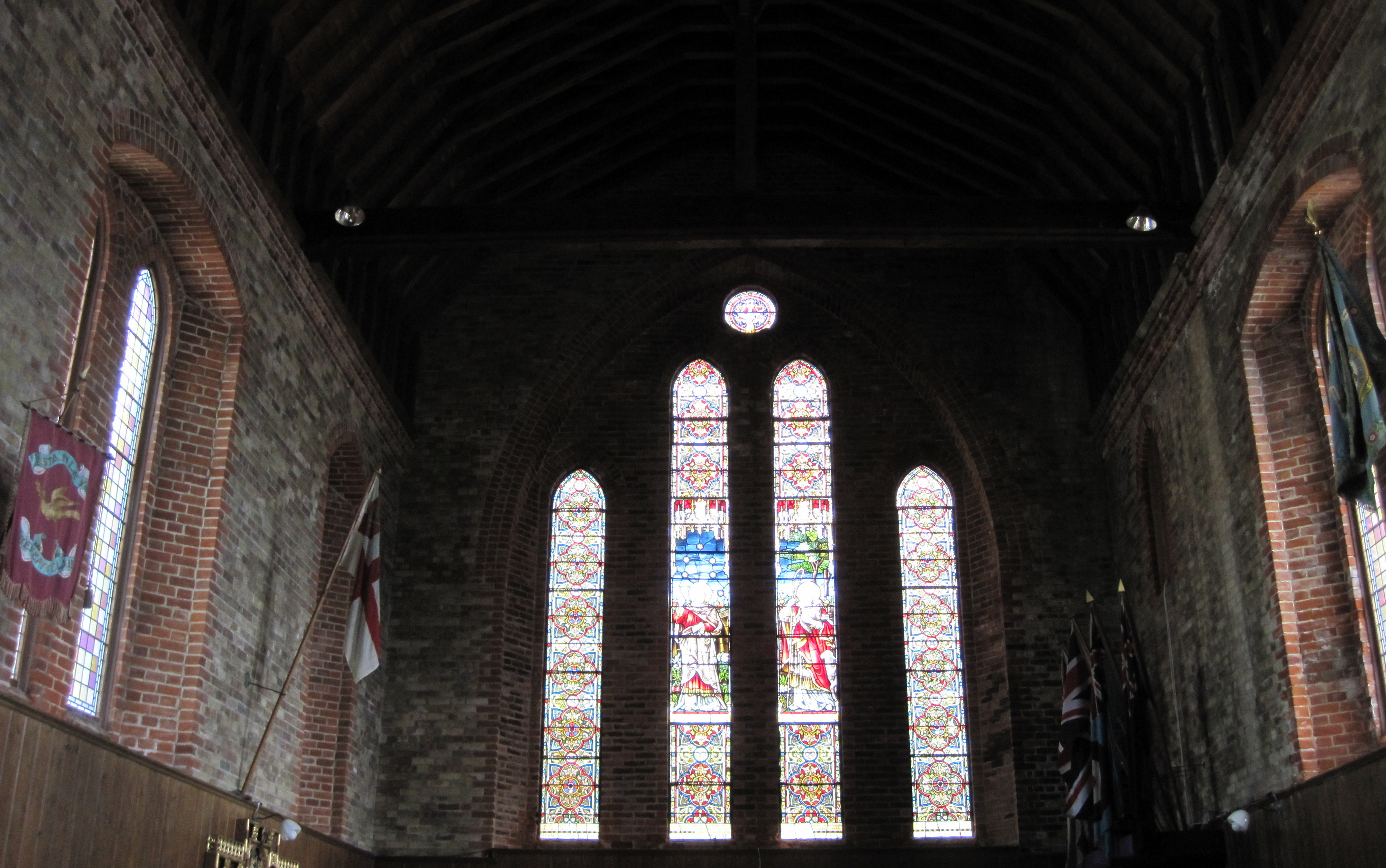 The stained glass windows and flags in the Falkland Islands Cathedral